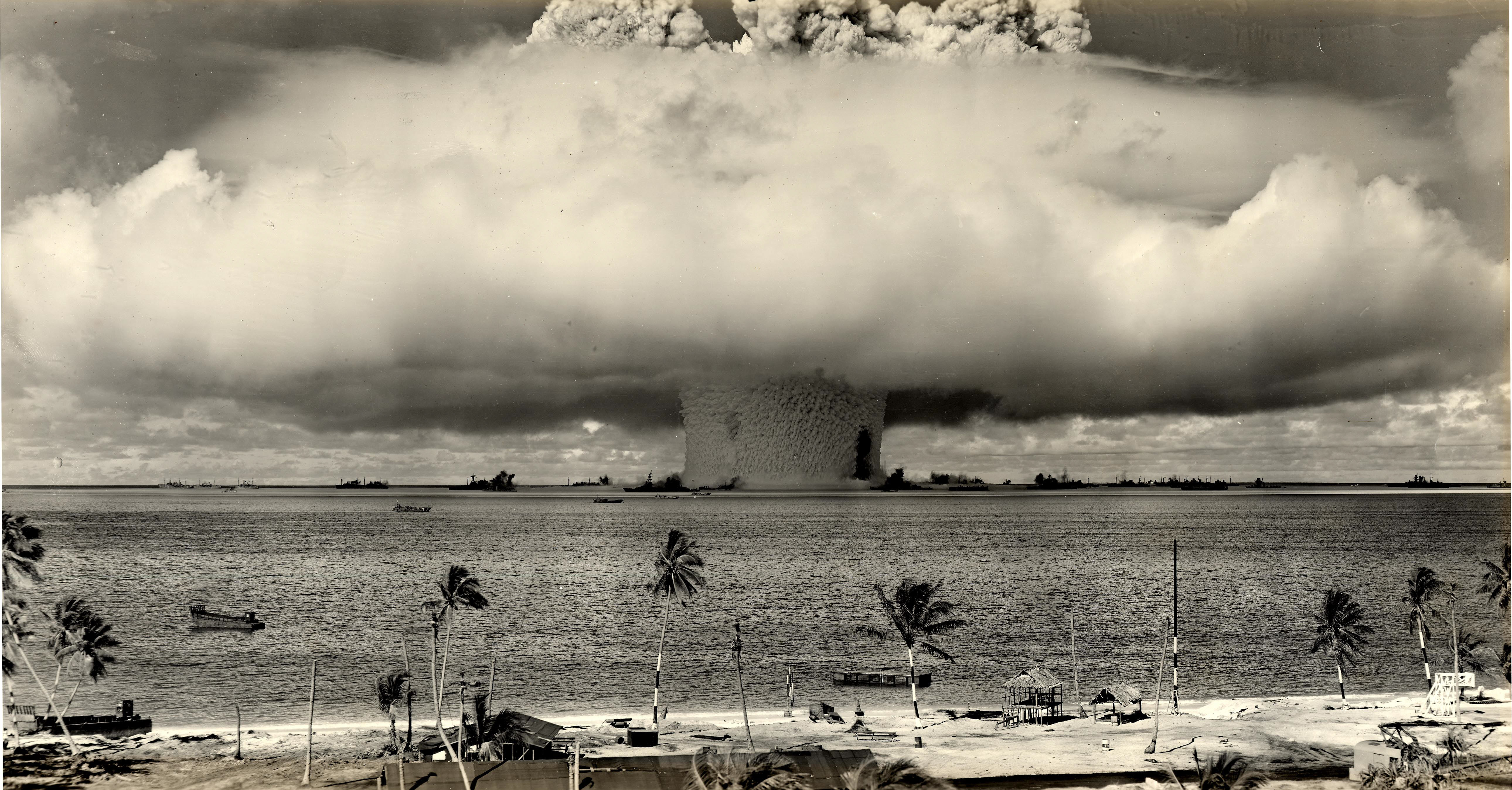 Operation Crossroads, BAKER Event - The BAKER Test was detonated on the Bikini Atoll on 24 July 1946. For the same picture uncropped, see File:Crossroads Baker (wide).jpg.